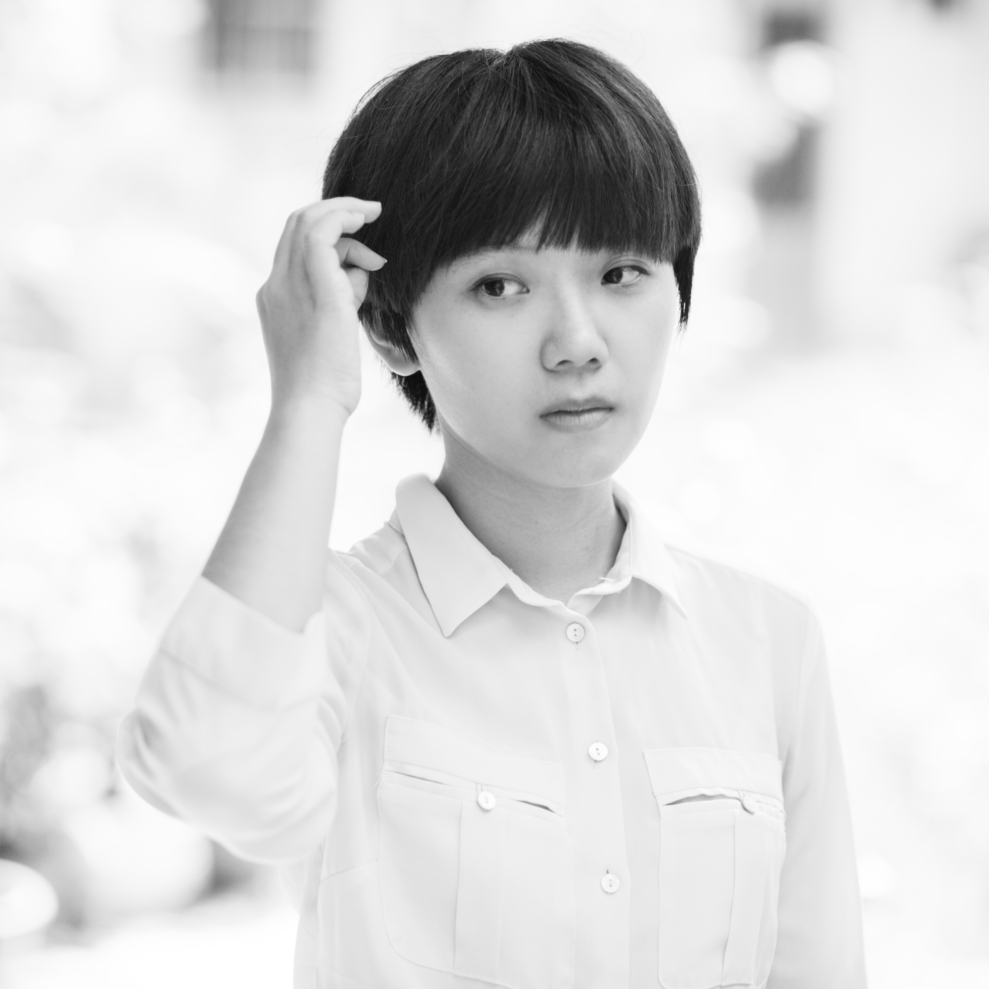 Chen Yuchin